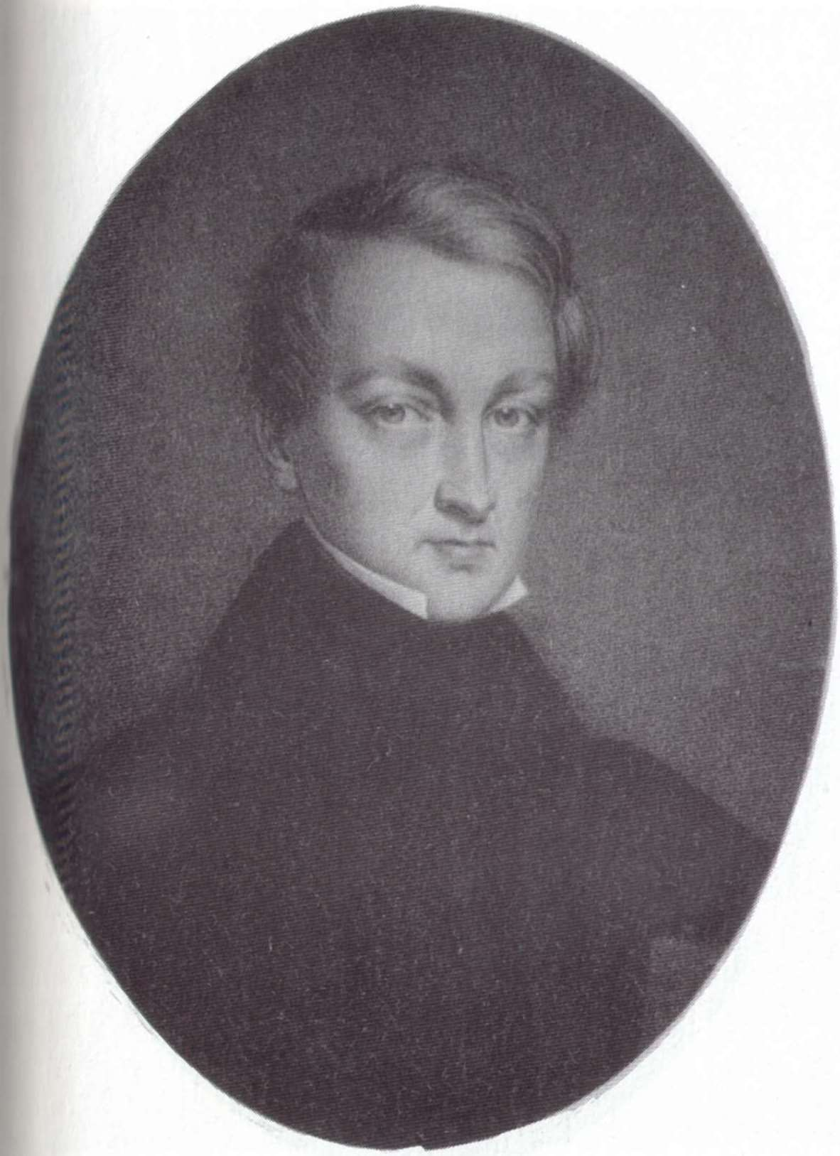 Christian Andreas Julius Graf Reventlow (1807-1845), Danish-German civil servant